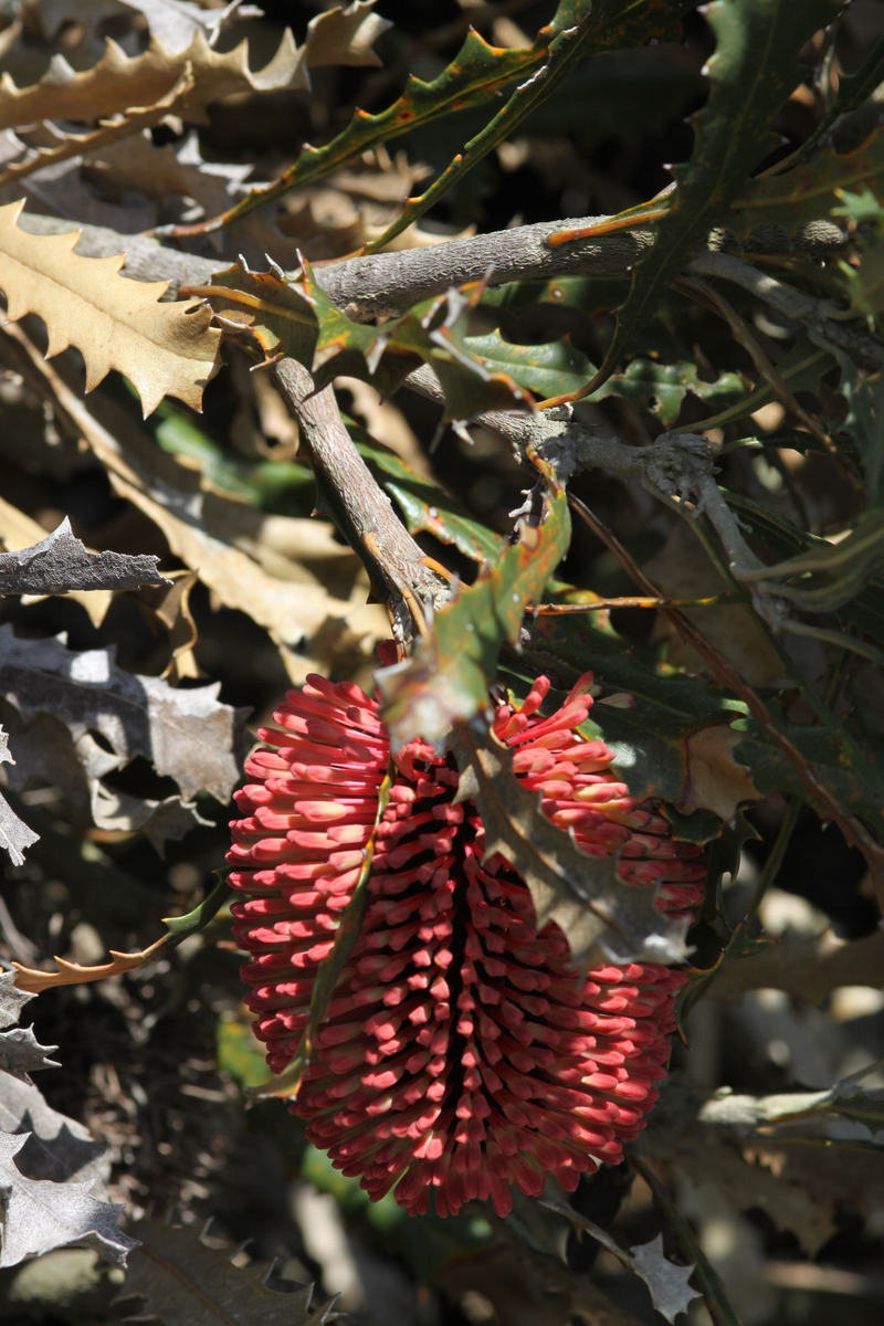 Banksia caleyi near Bamarook, Cowalellup Rd